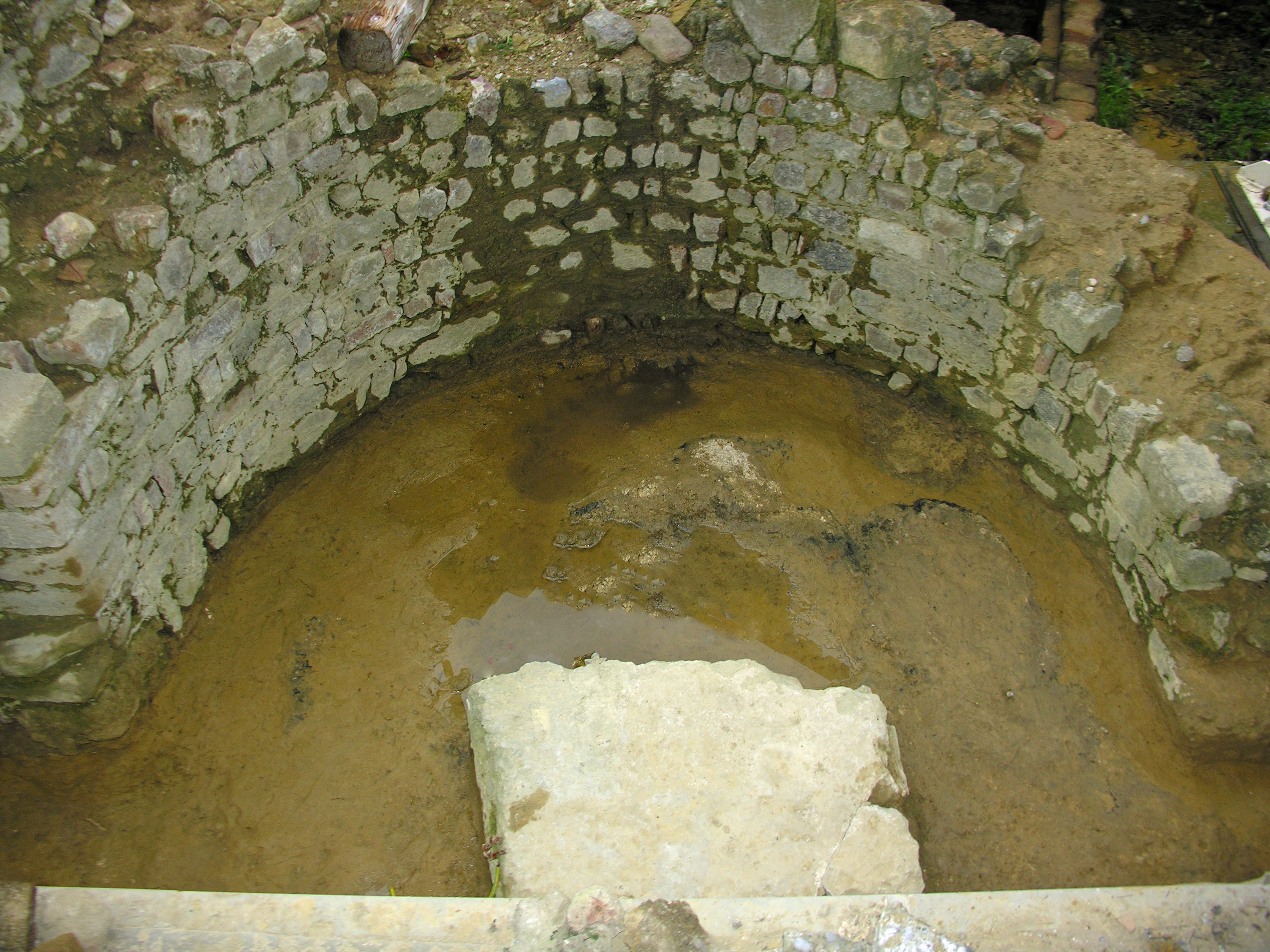 particular the Archaeological Park of La Rocca Santa Maria a Monte